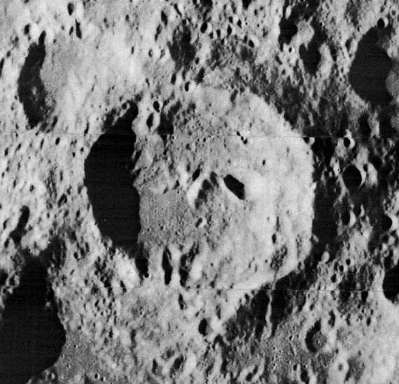 Slightly oblique view of Racah (crater), on the far side of the moon.